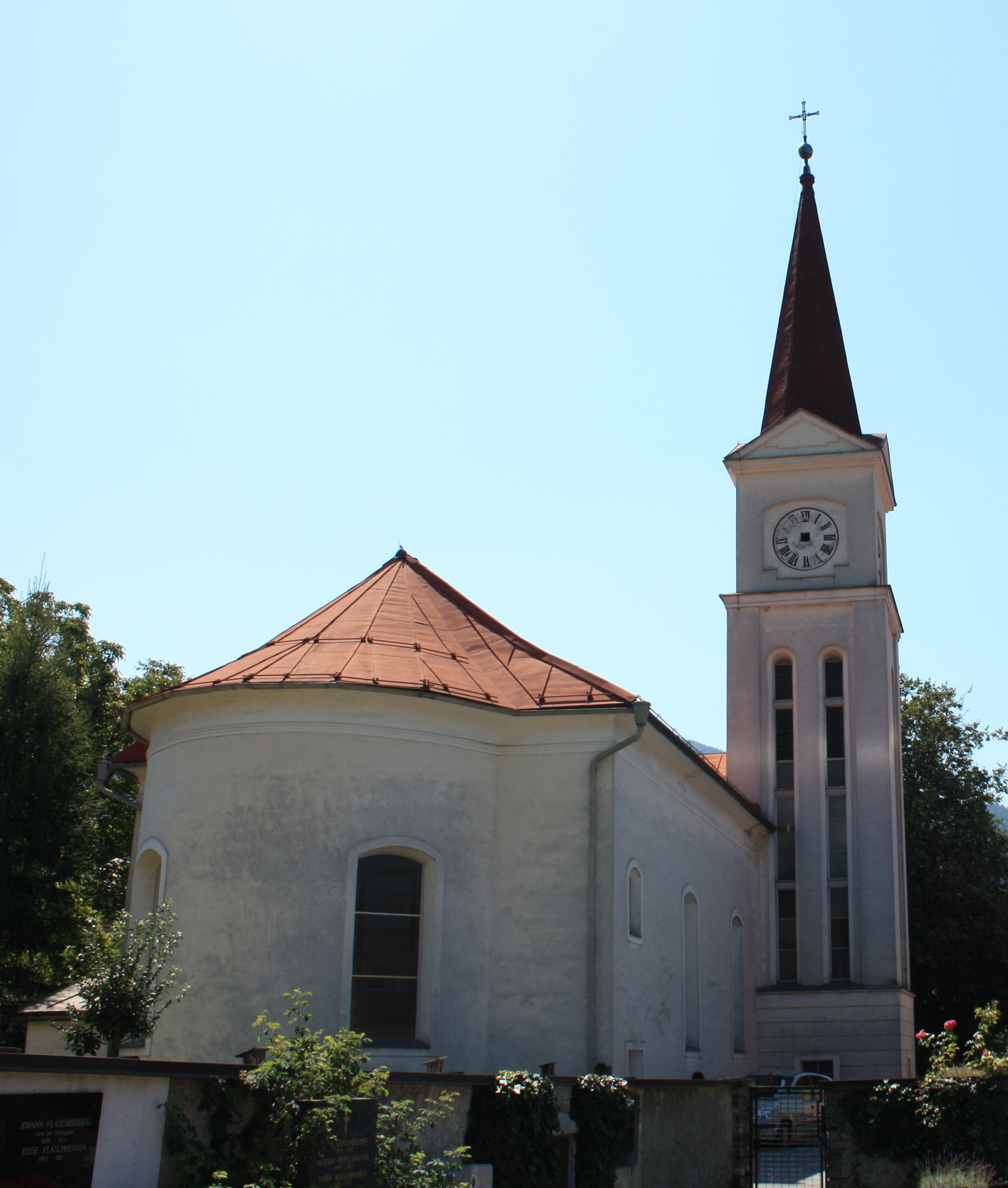 Lutherian Church Locality: Feffernitz Community:Paternion